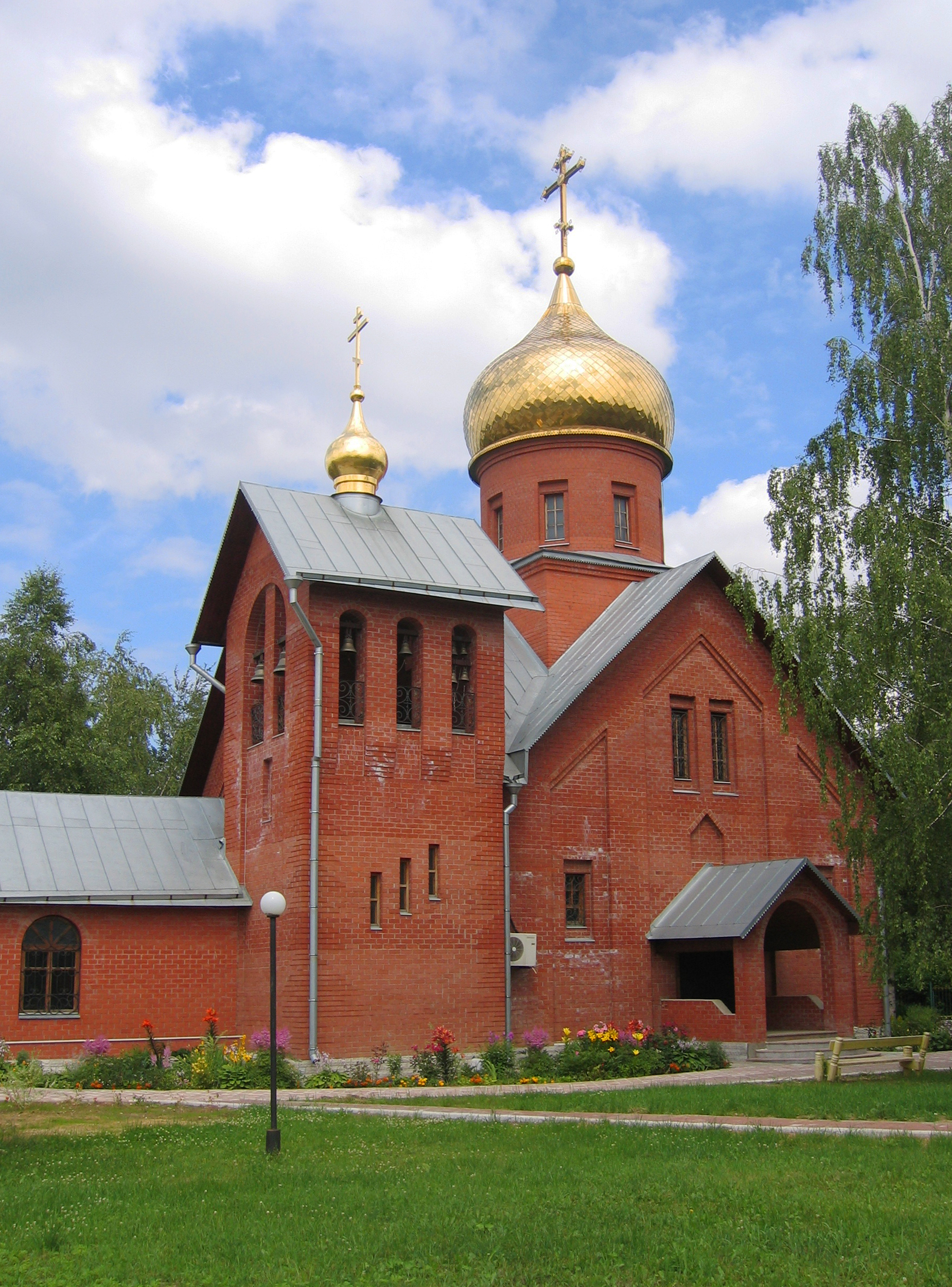 Patriarch Tikhon Church in Moskovsky, Moscow (formerly Moscow Oblast), Russia